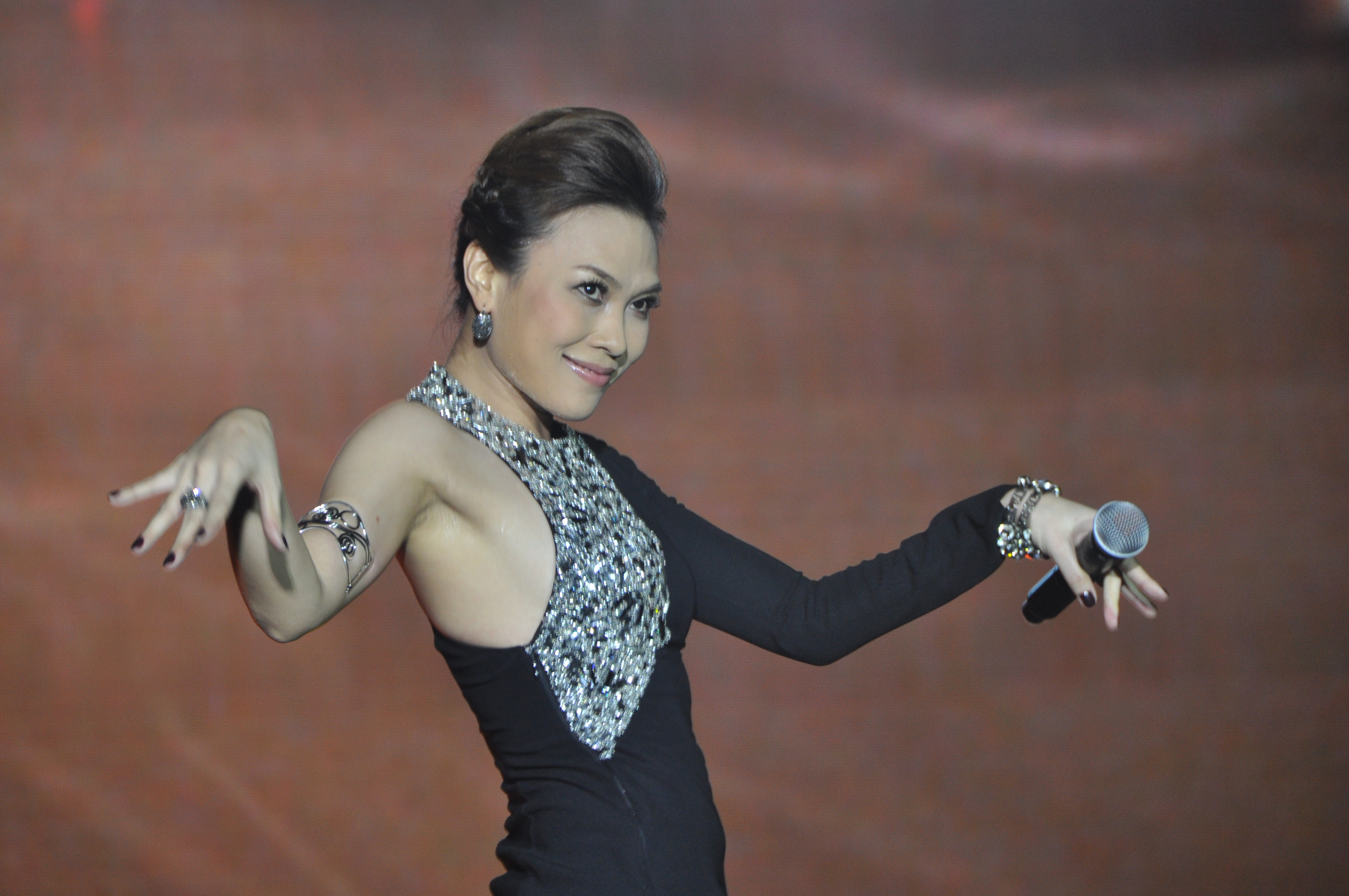 USAID co-sponsors MTV EXIT concert, campaign against human trafficking